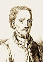 old Italian book, the author died more than 100 years.public domain